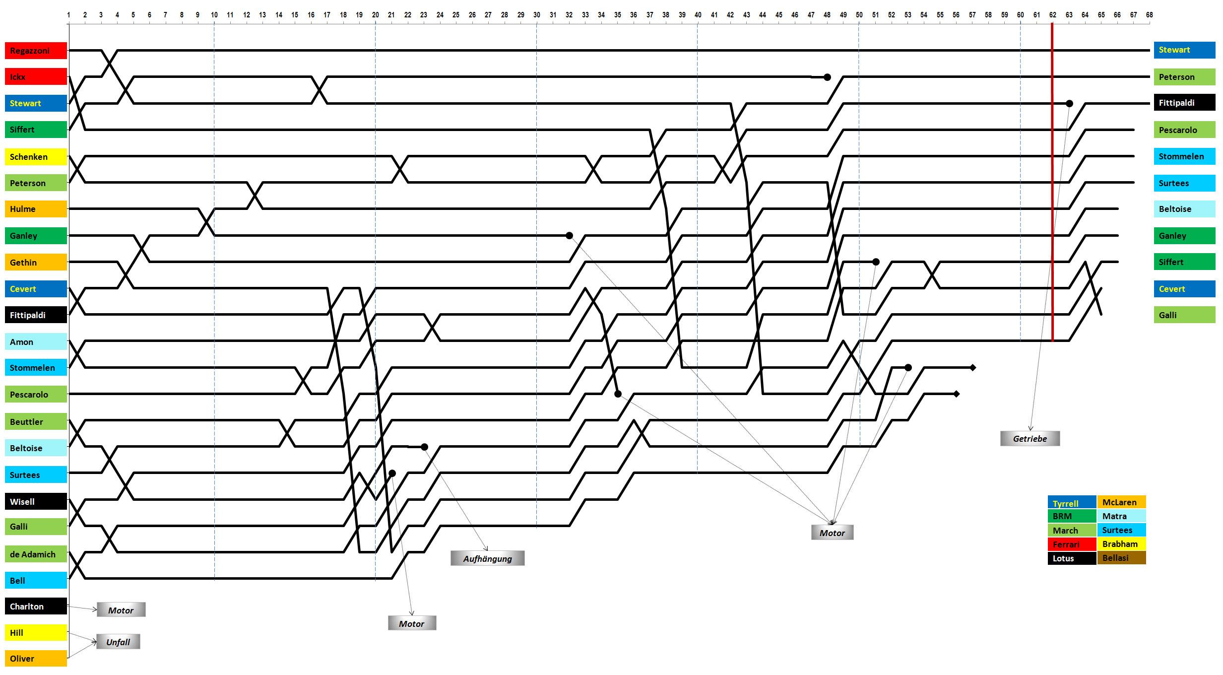 Round table British Grand Prix 1971